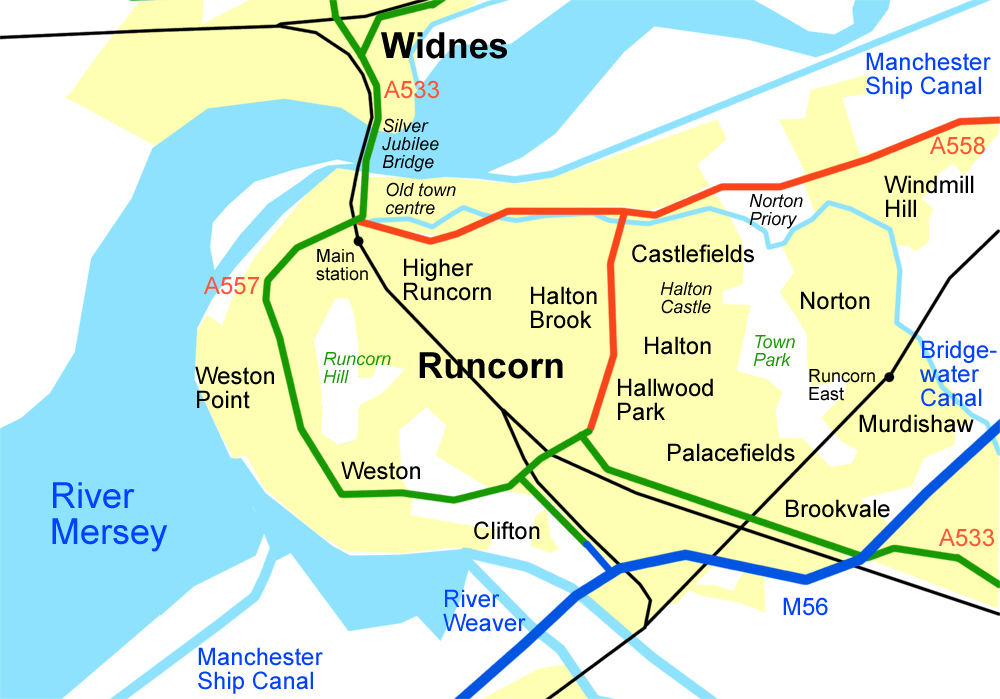 Sketch map of Runcorn, Cheshire, showing railways.